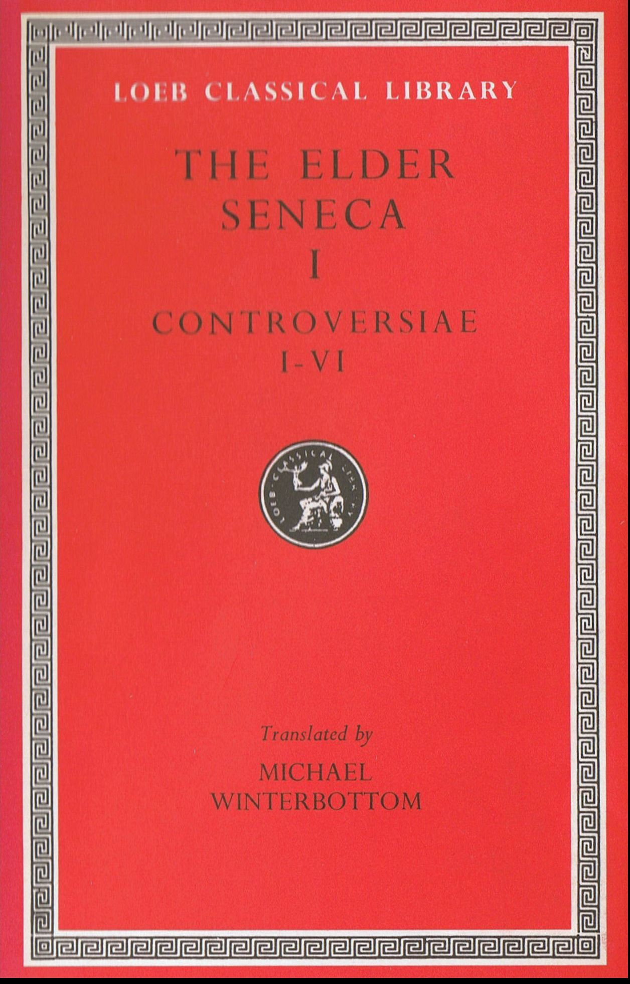 Dust jacket Loeb Classical Library